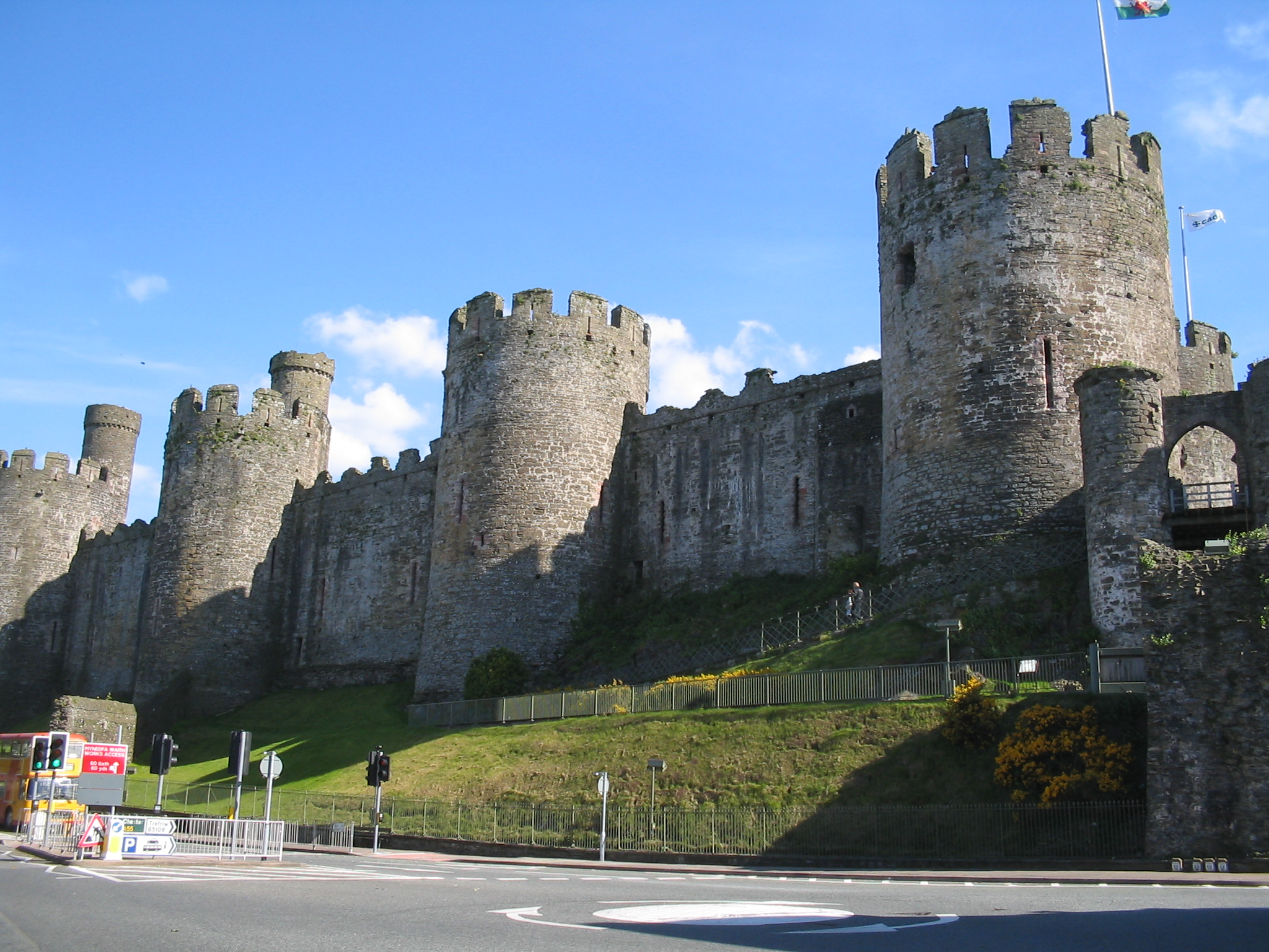 Conwy Castle. Possible the view is looking south from Conwy Road. A mini-roundabout is visible at the bottom. David Benbennick took this photo on May 13, 2005 at 4:33 PM (15:33 UTC).